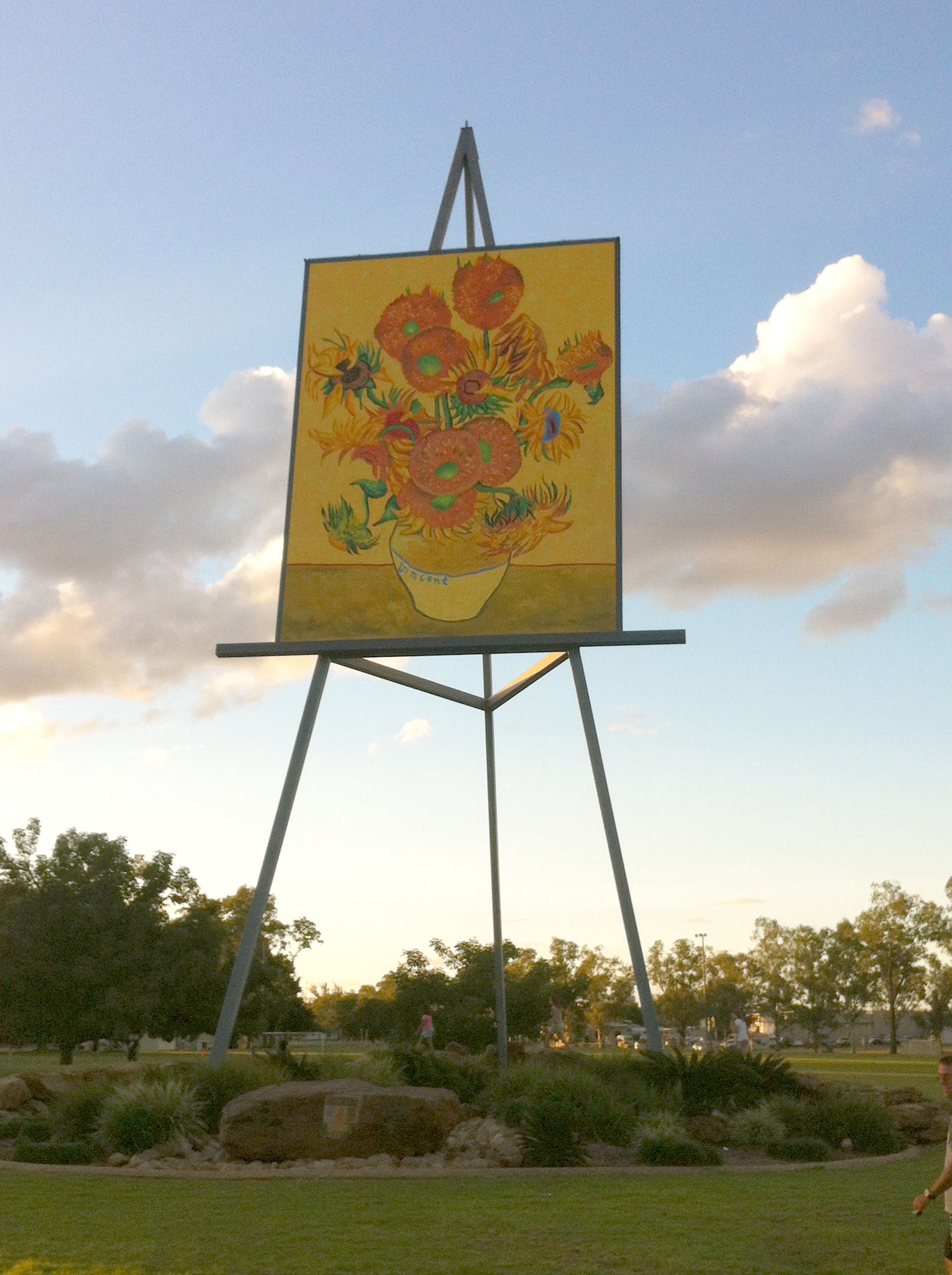 This is a photo of the Big Easel in Emerald Queensland.